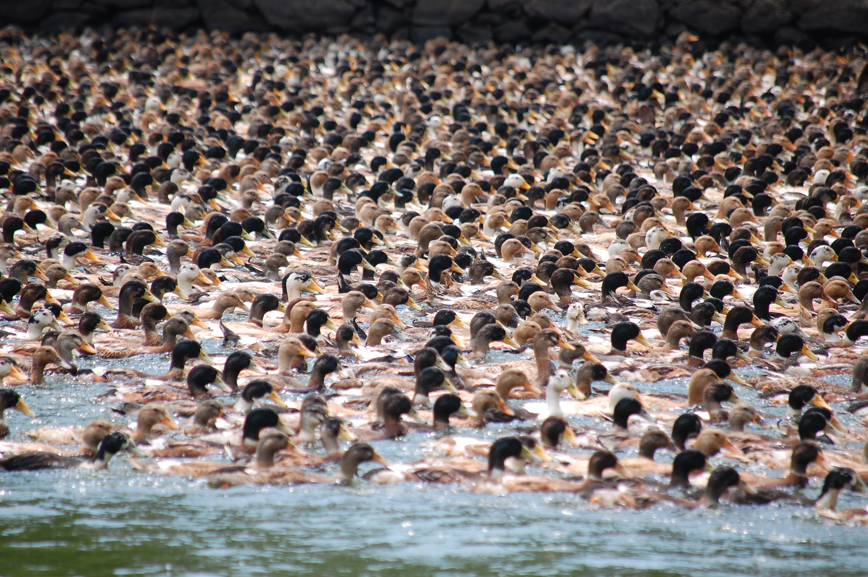 a local duck farmer guidings 1000s ducks single handedly through vembanad lake, alappuzha, kerala